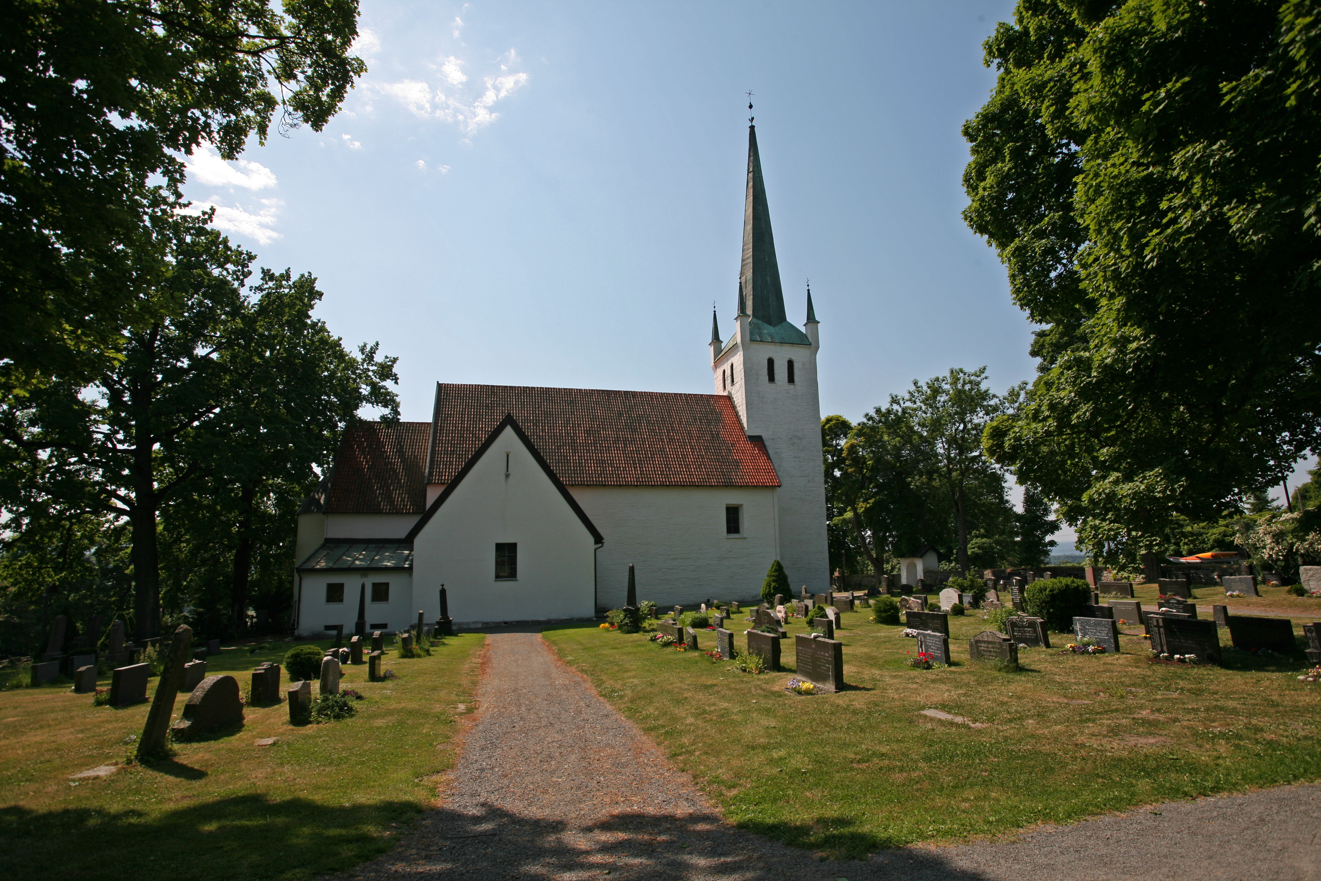 Picture of Norderhov church (Buskerud - Norway)